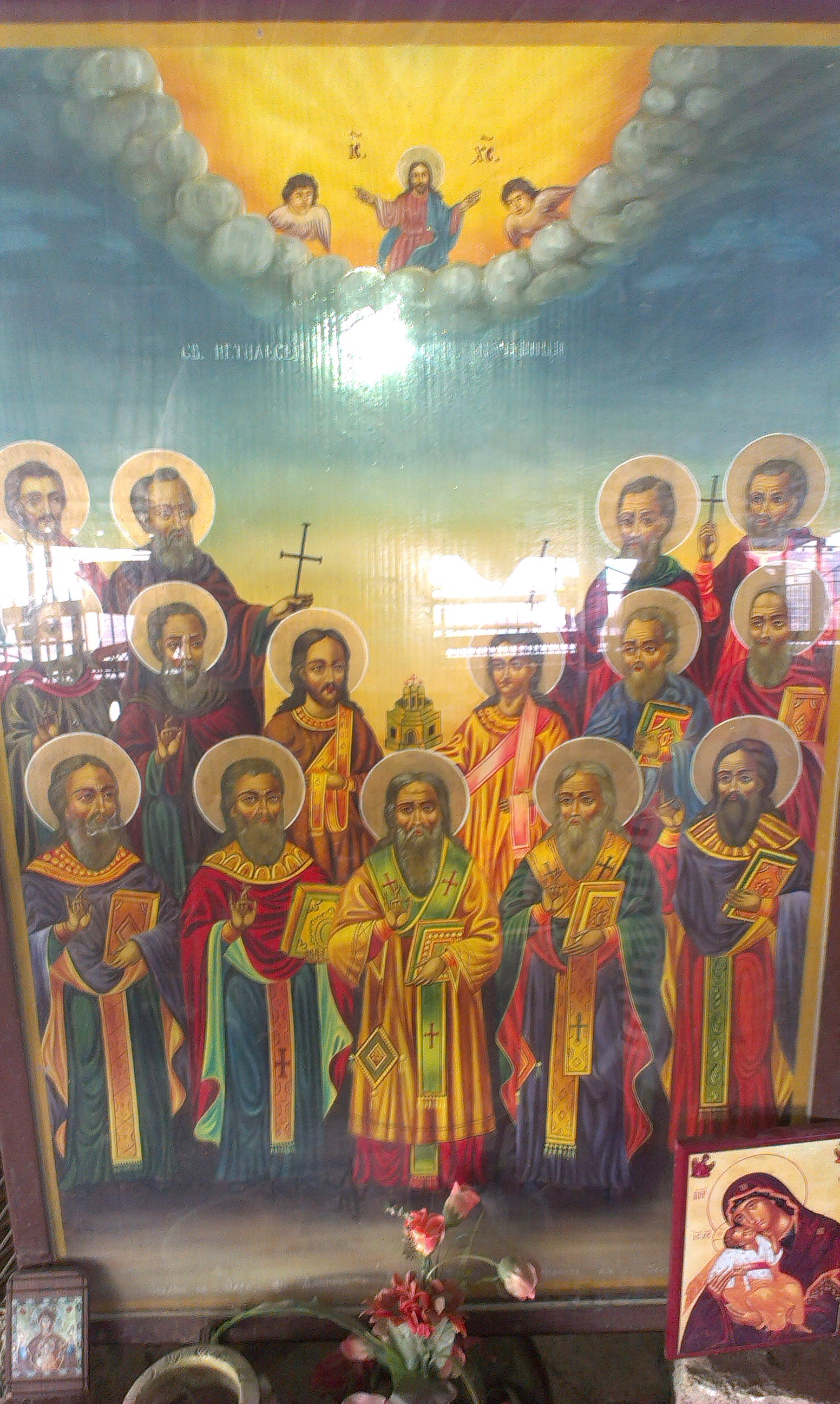 Sts. 15 Martyrs of Tiveriopolis